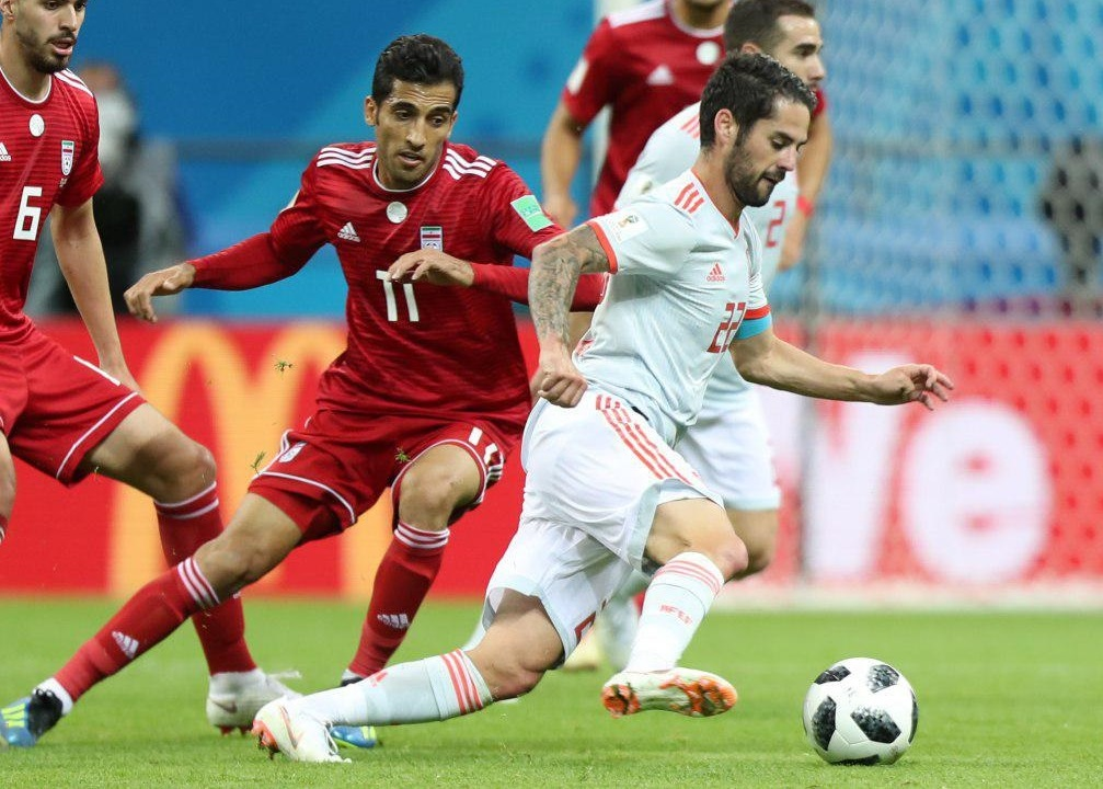 Iran and Spain match at the FIFA World Cup 2018